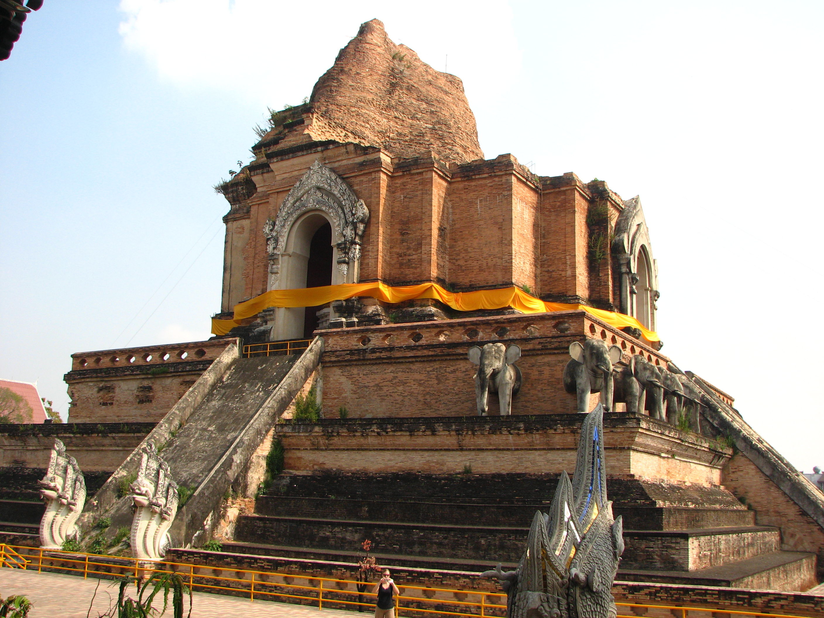 Wat Chedi Luang in Chiang Mai